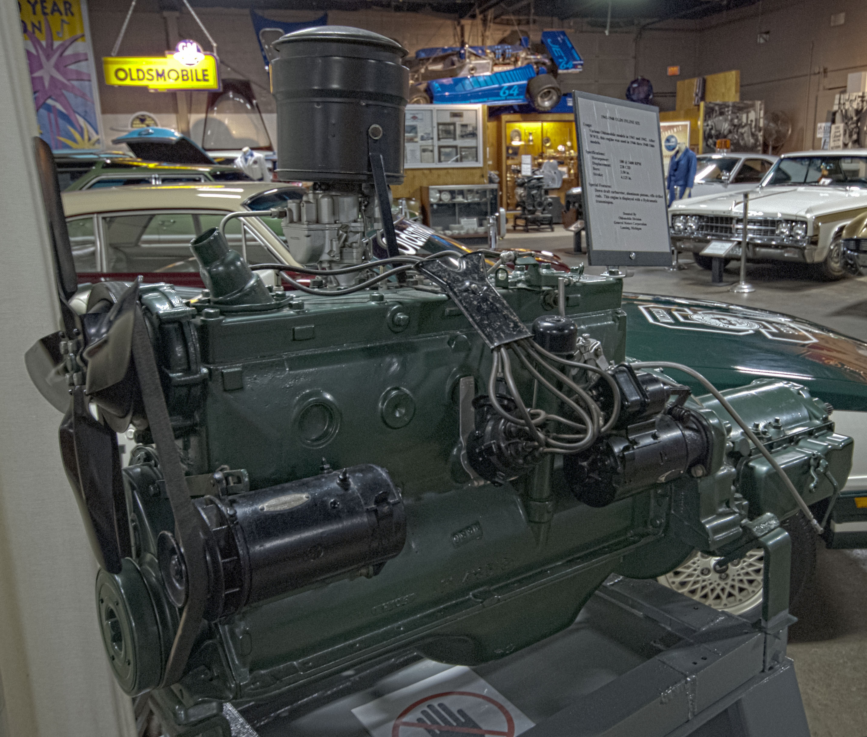 Olds Inline Six 230